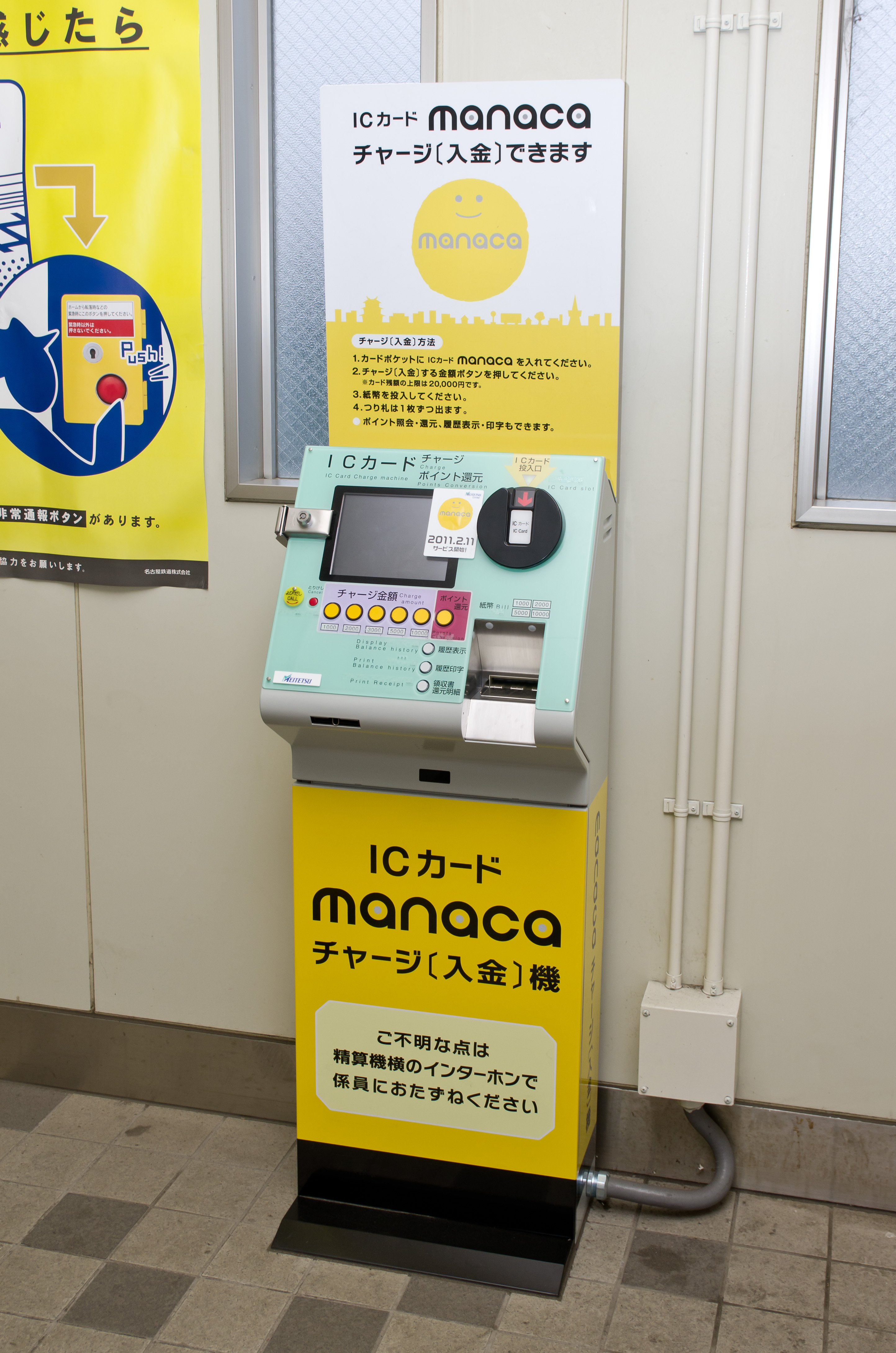 manaca charge machine (Nagoya Railroad & Toyohashi Railroad)